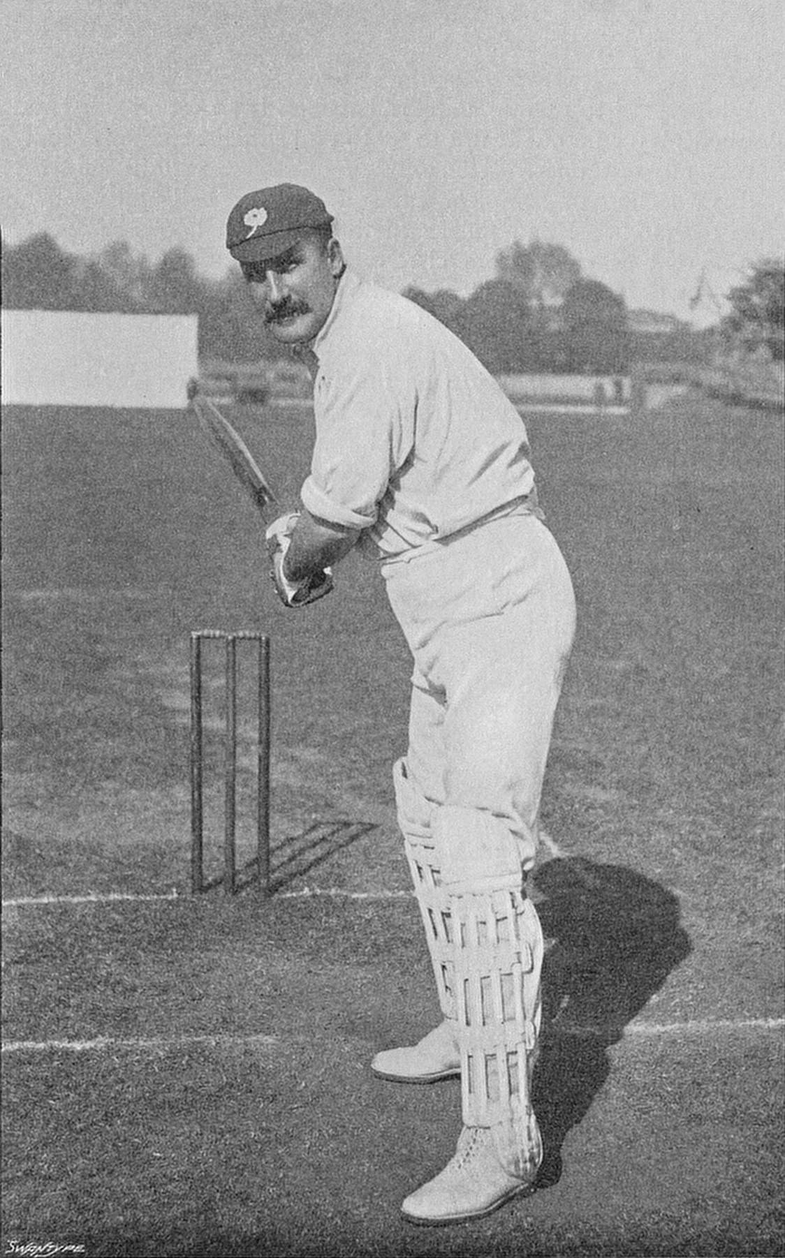 "Lord Hawke running out to drive."